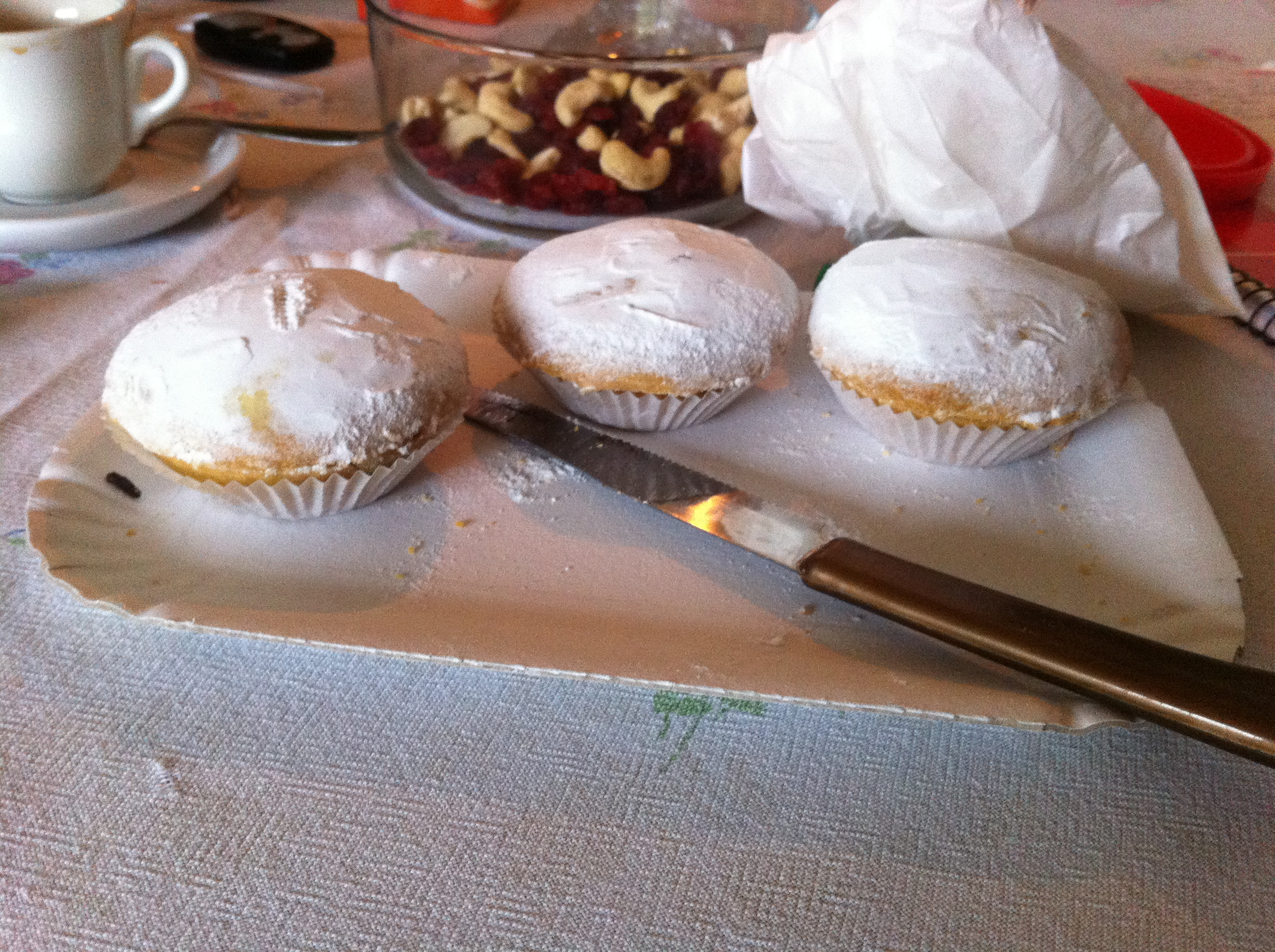 Bocconotto bought at Clementi, just outside Castel Frentano, CH, Italy